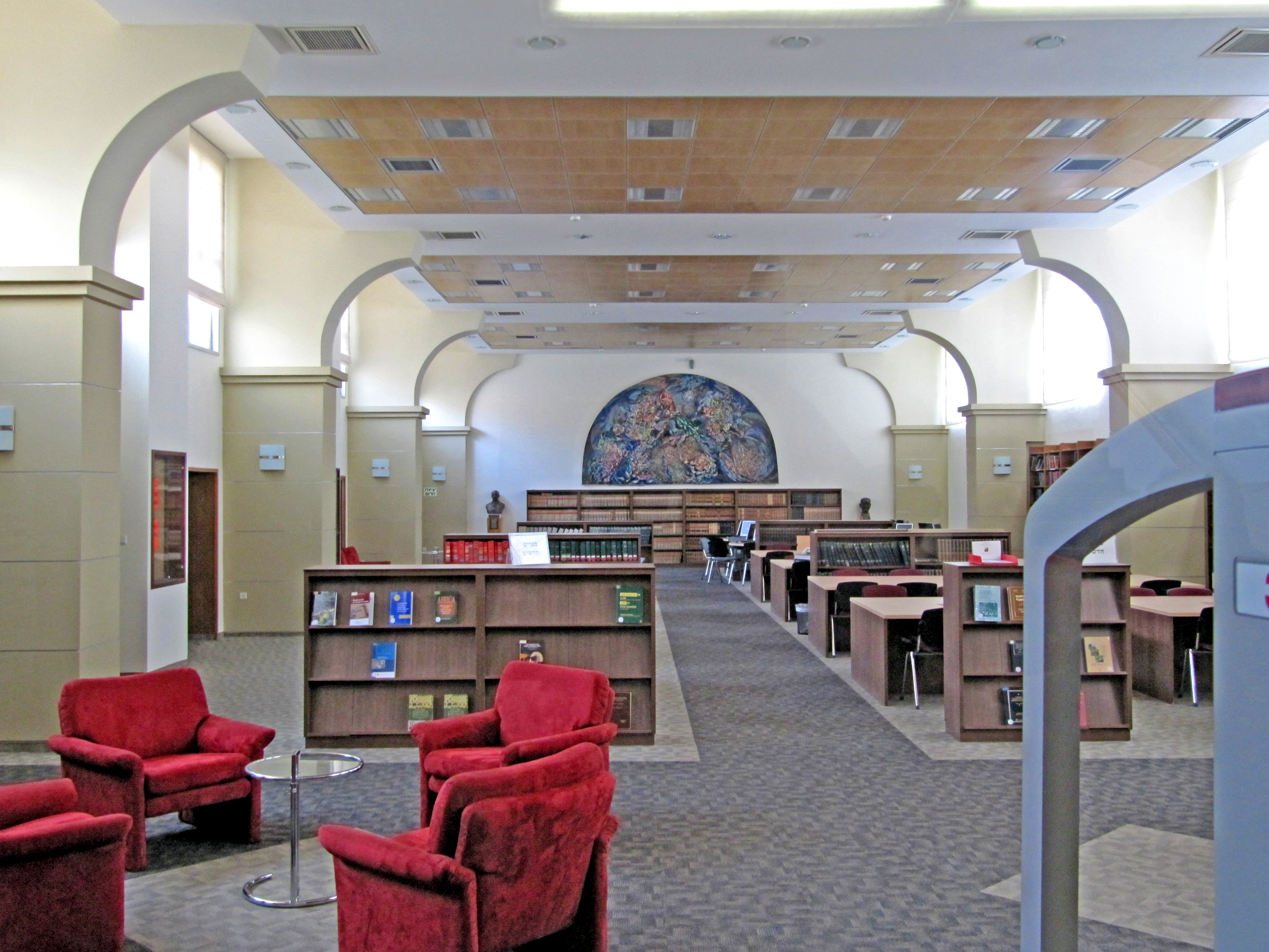 Hebrew University campus on Mount Scopus, Jerusalem